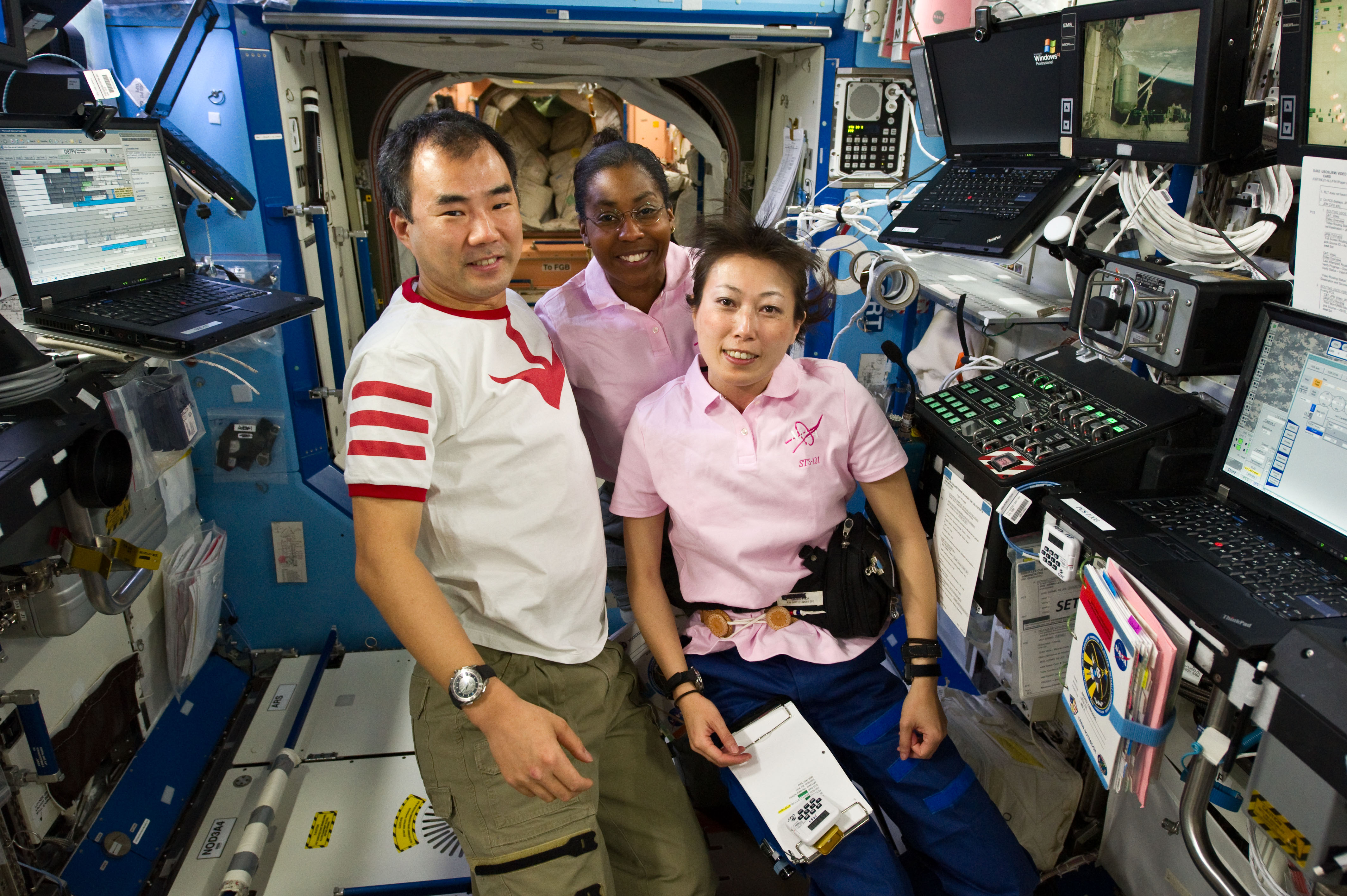 Japan Aerospace Exploration Agency (JAXA) astronauts Soichi Noguchi, Expedition 23 flight engineer; and Naoko Yamazaki (right), STS-131 mission specialist; along NASA astronaut Stephanie Wilson, STS-131 mission specialist, pose for a photo in the Destiny laboratory of the International Space Station while space shuttle Discovery remains docked with the station.